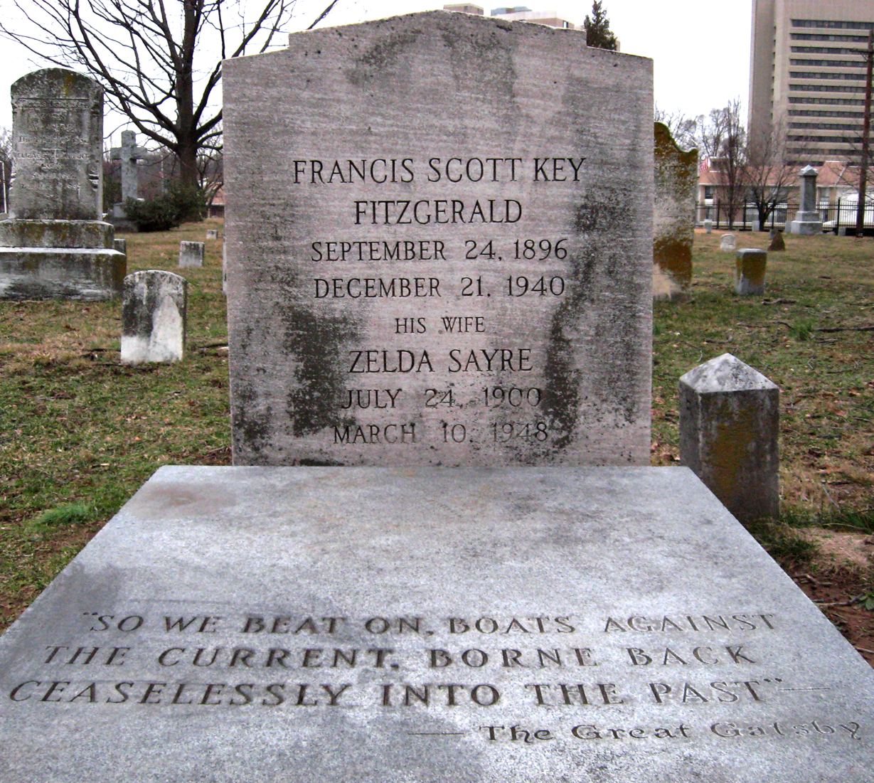 The grave of F. Scott Fitzgerald and Zelda Fitzgerald in St. Mary's Catholic Cemetery in Rockville, Maryland. The quote is the final line of The Great Gatsby: "So we beat on, boats against the current, borne back ceaselessly into the past."